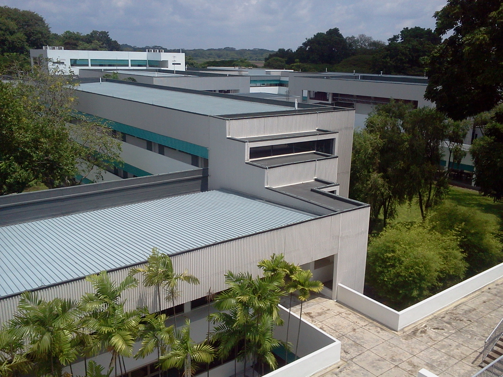 The campus of Jurong Junior College, Singapore, viewed from the 4th floor of the People Development Block.